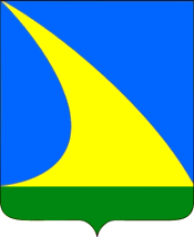 Coat of arms of Dolzhanskaya, Krasnodar Krai, Russia.